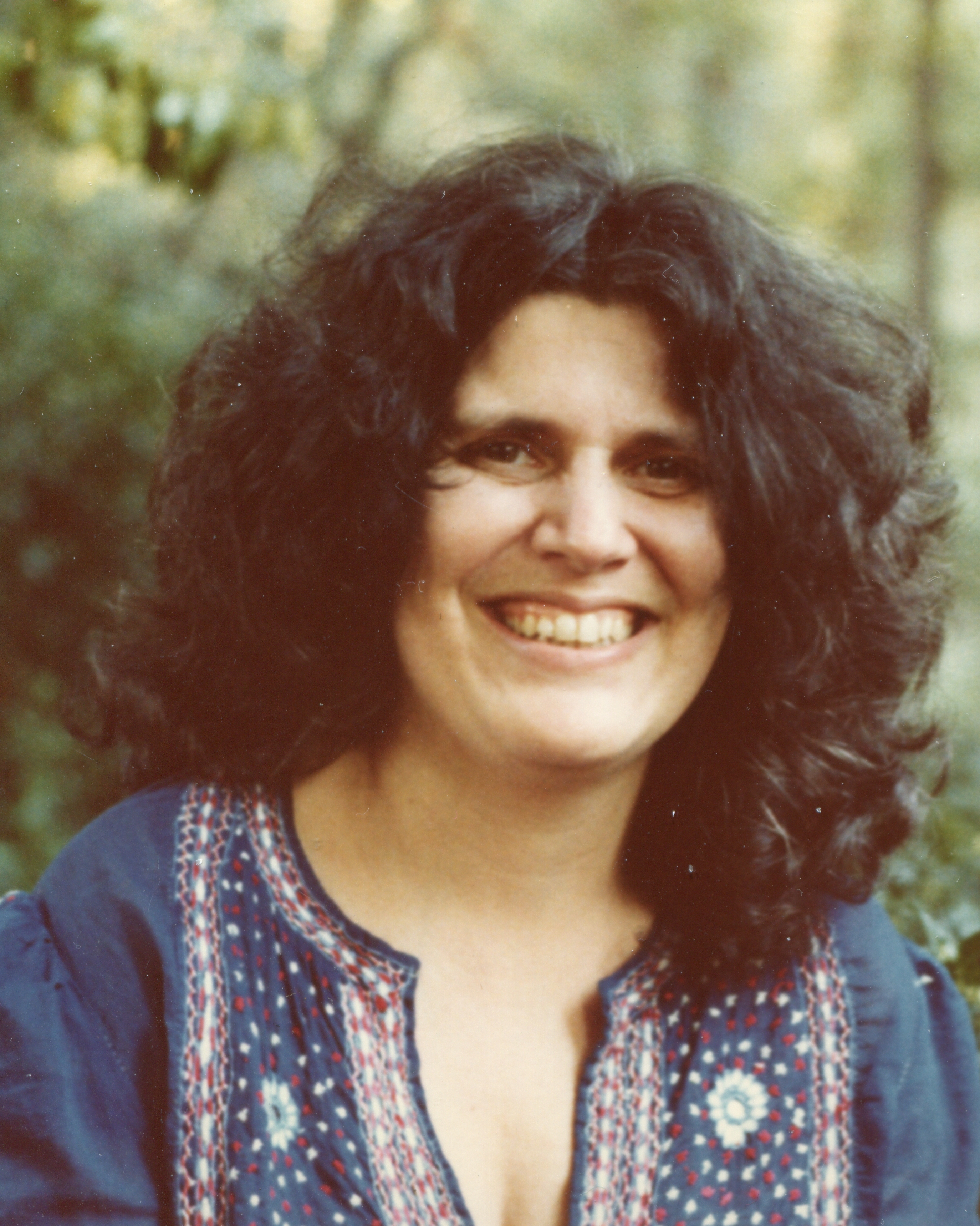 American mathematician Marie-Louise Michelsohn at Berkeley, California in 1982; portion scanned at 1050 dpi